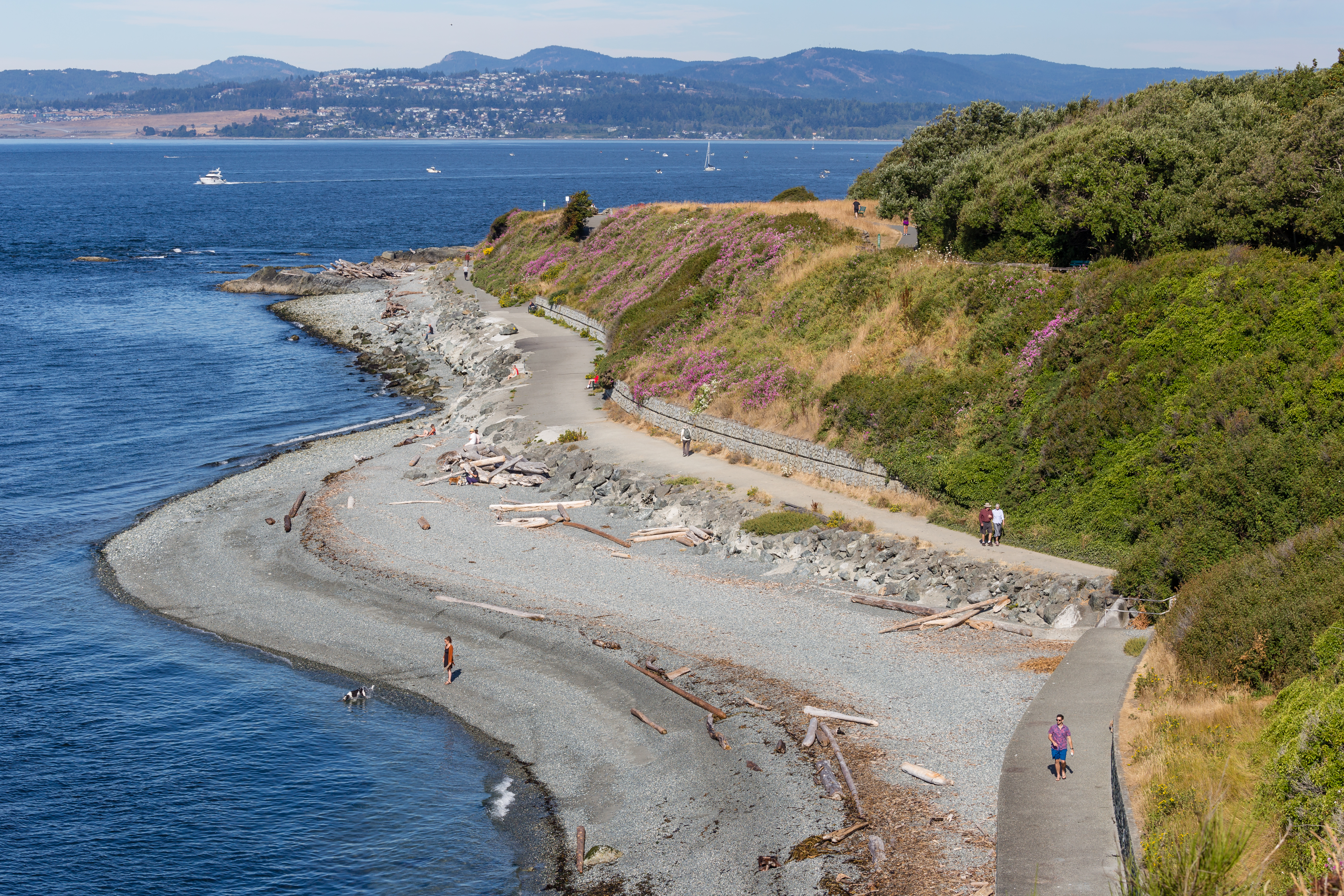 Holland Point Shoreline Trail, Victoria, British Columbia, Canada